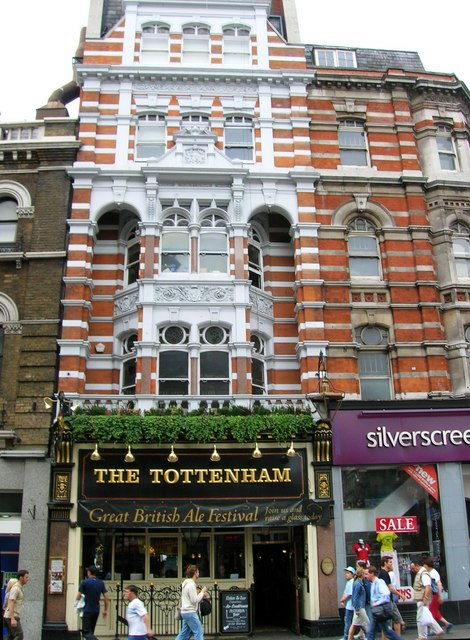 The Tottenham, Oxford Street W1